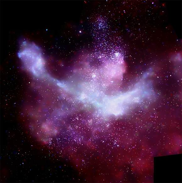 Eta Carinae Nebula whit open cluster Trumpler 14, Trumpler 15, Trumpler 16